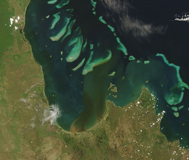 Original NASA image courtesy the MODIS Rapid Response Team, Goddard Space Flight Center. This image was cropped to show Princess Charlotte Bay in Far North Queensland, Australia